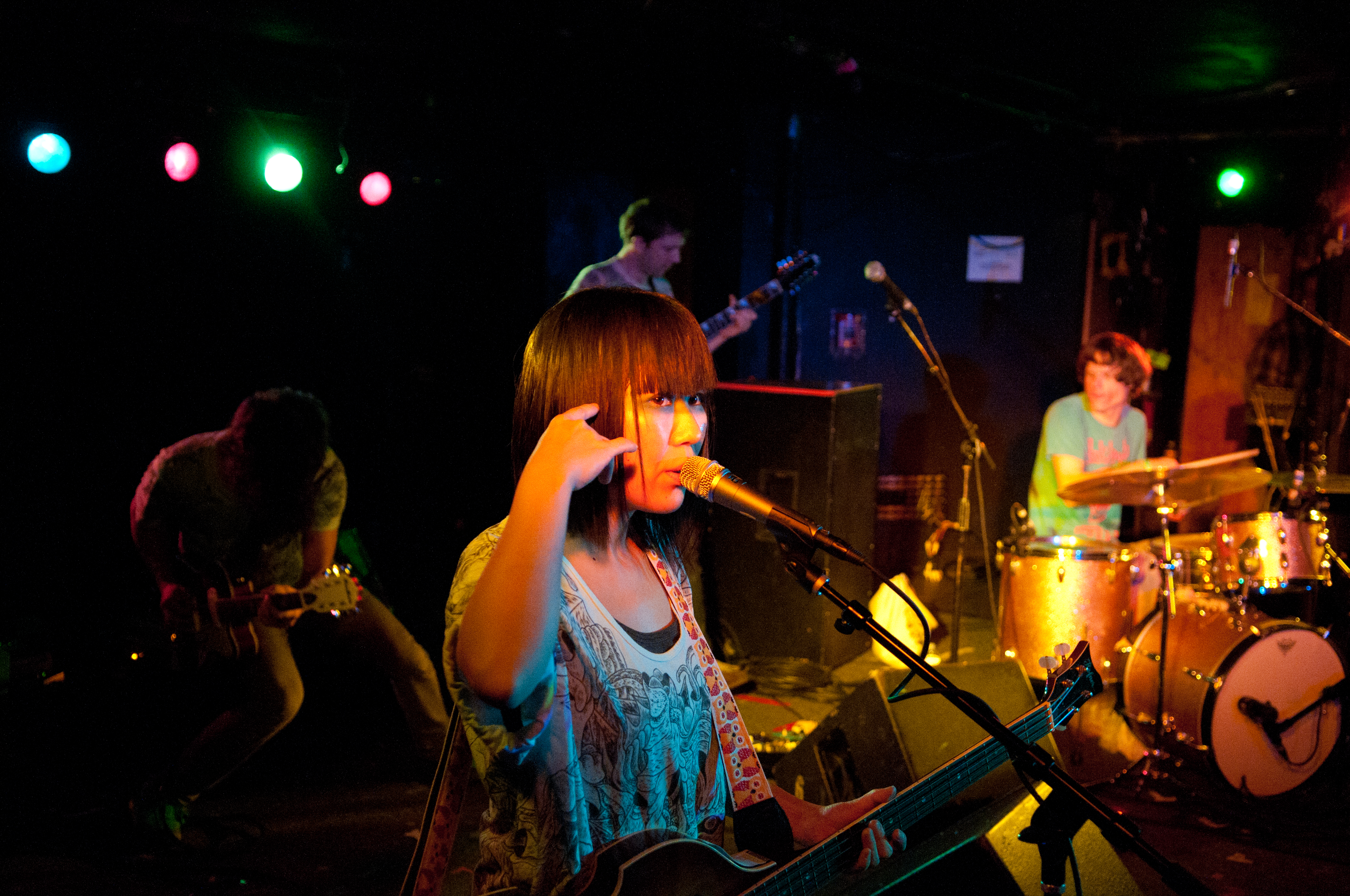 Deerhoof plays at the Middle East.